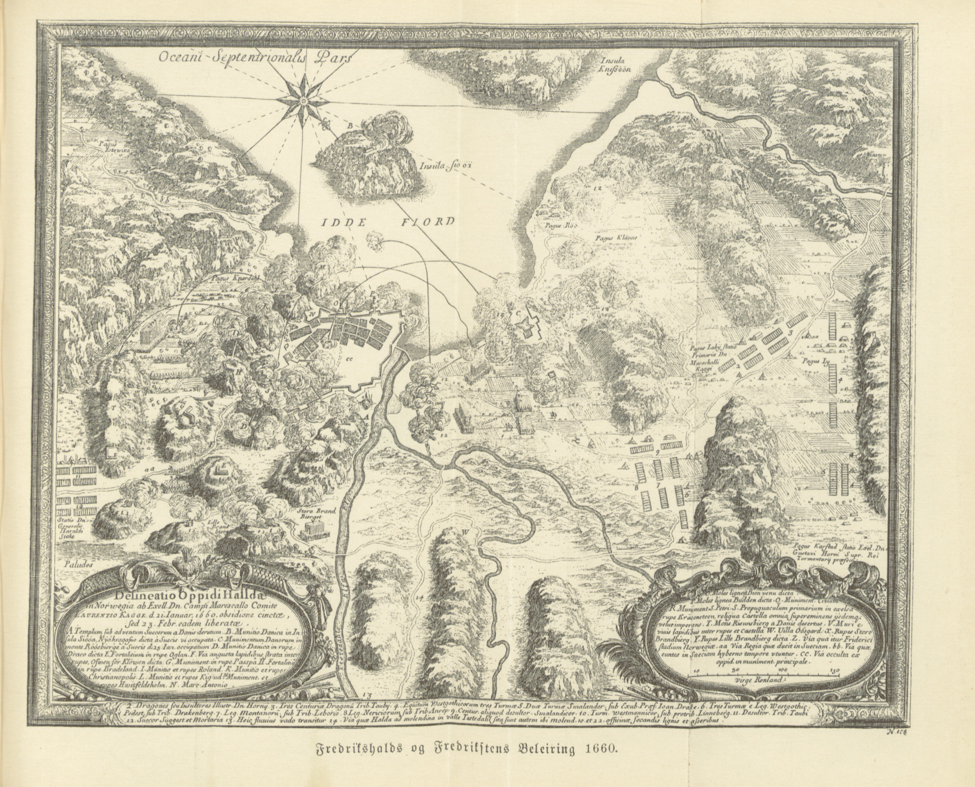 View this map on the BL Georeferencer service. Image taken from: Title: "Illustreret Norges historie. [With plates.]" Author: ØVERLAND, Ole Andreas. Shelfmark: "British Library HMNTS 9425.c.37." Volume: 04 Page: 1199 Place of Publishing: Kristiania Date of Publishing: 1885 Issuance: monographic Identifier: 002733973 Explore: Find this item in the British Library catalogue, 'Explore'. Download the PDF for this book (volume: 04) Image found on book scan 1199 (NB not necessarily a page number) Download the OCR-derived text for this volume: (plain text) or (json) Click here to see all the illustrations in this book and click here to browse other illustrations published in books in the same year. Order a higher quality version from here.